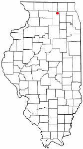 Category:Illinois city locator maps